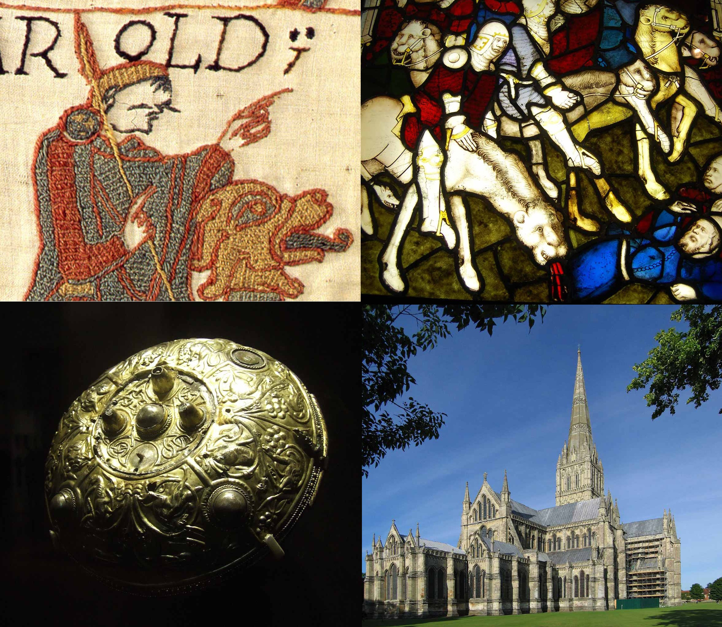 The Ormside bowl in the British Museum. It is a silver and glass double bowl dating from the AD 750-800 which was found in 1823 buried next to a Viking warrior in Ormside, Cumbria Detail of Image:Harold bayeux tapestry.png fragment of the bayeux tapestry showing harold as he comes to normandy to inform william he is the sucesor of king eduard.